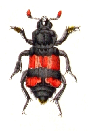 Nicrophorus investigator, from Calwer's Käferbuch, Table 9, Picture 12. Taxonomy was updated to 2008, using mostly the sites Fauna Europaea and BioLib. Please contact Sarefo if the determination is wrong!